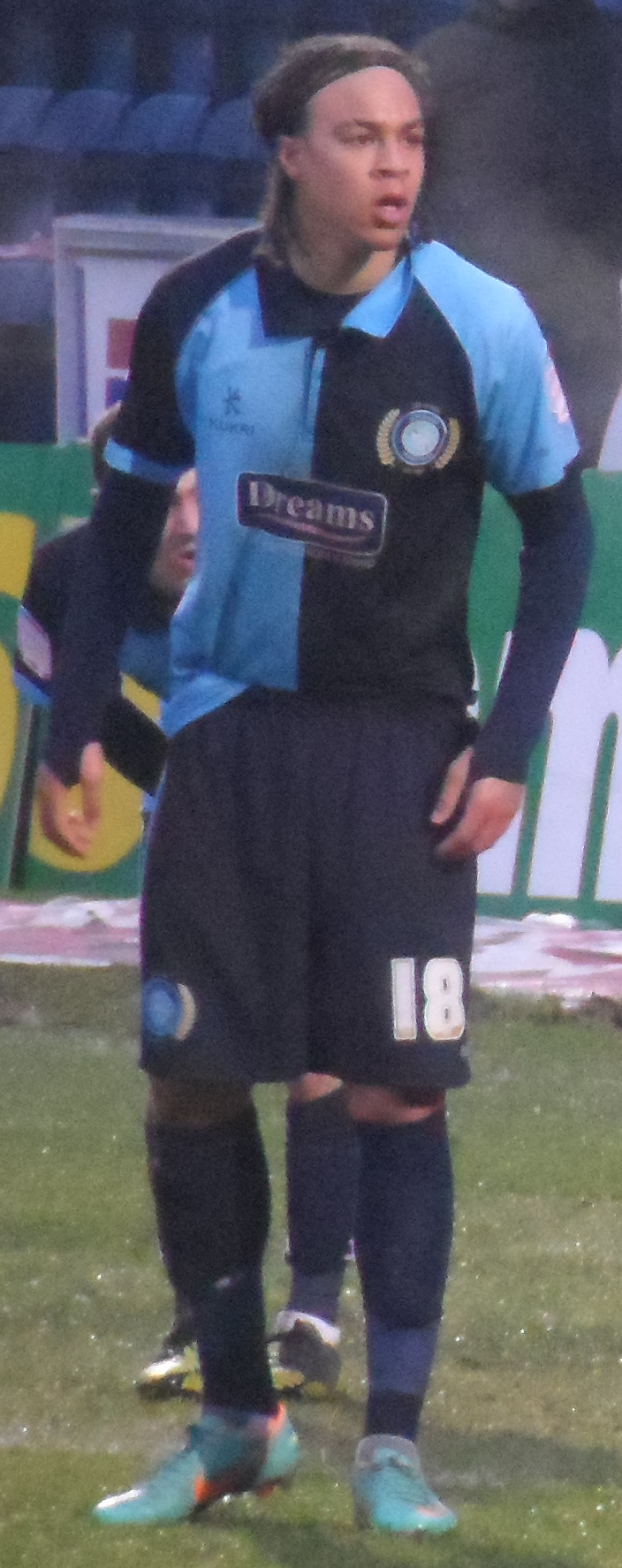 Charles Dunne. Image cropped from original at flickr.